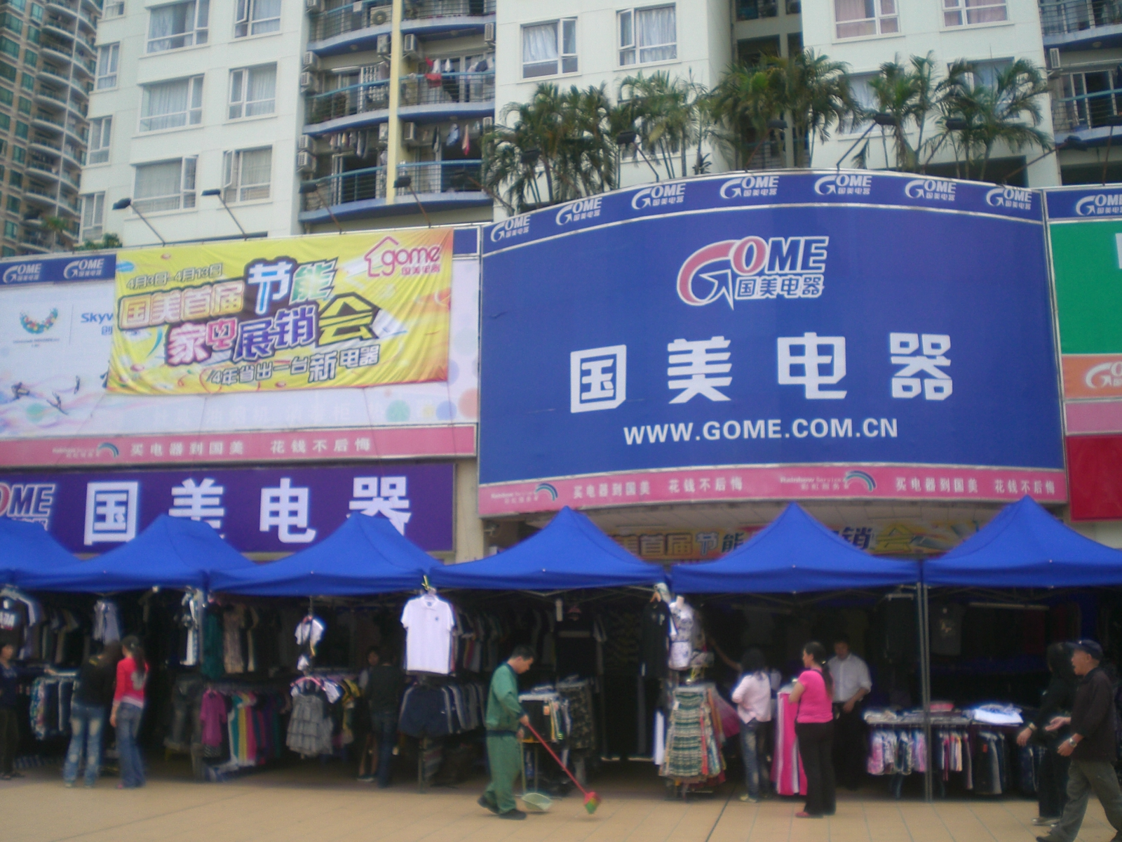 深圳街景 - 福田區 國美電器 攤販 服裝店 & 遊人